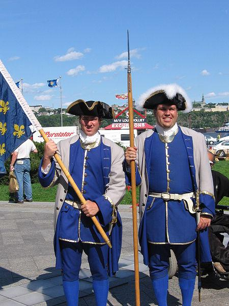 Officers of Compagnie Franche de la Marine